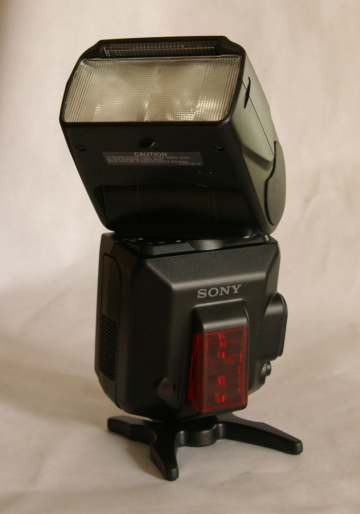 SONY HVL-F56AM flash